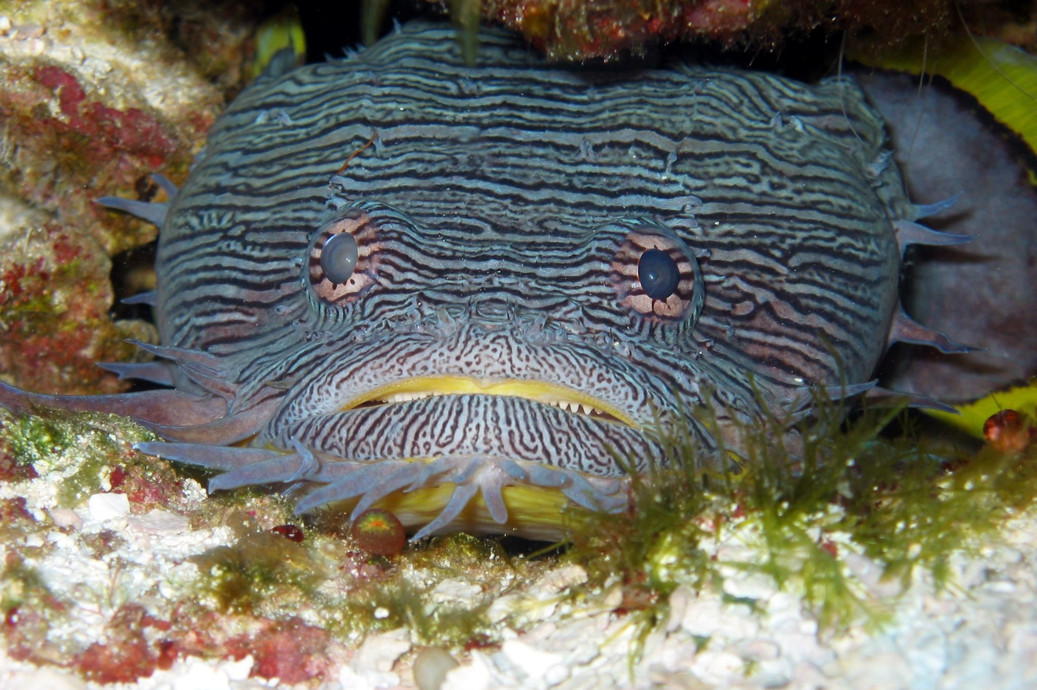 Image title: Splendid toadfish (Sanopus splendidus) Image from Public domain images website